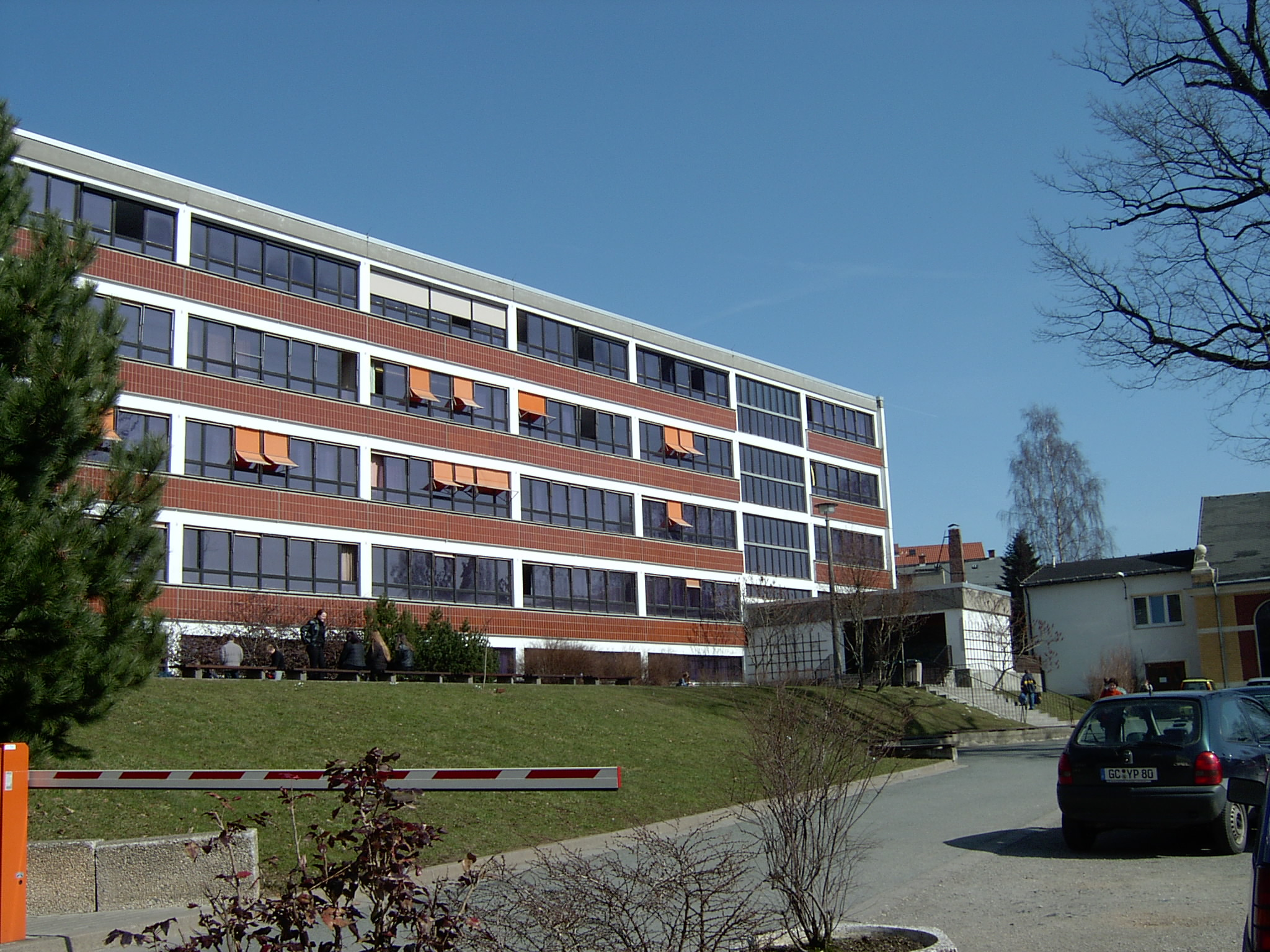 Main building of the Lessing Gymnasium in Hohenstein-Ernstthal before renovation